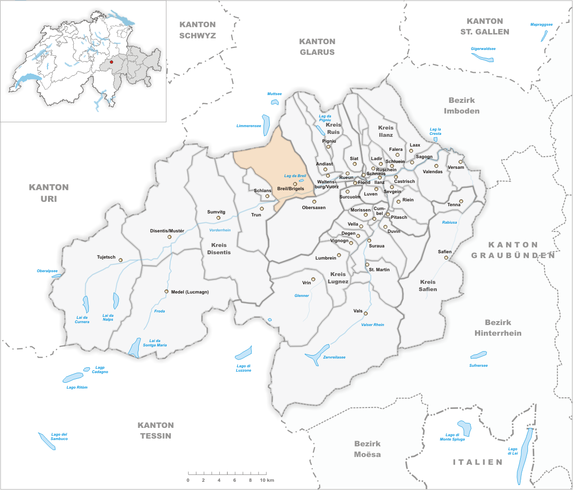 Municipality Breil/Brigels